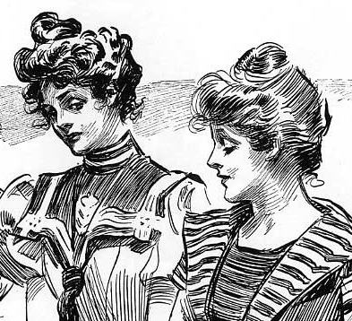 "Gibson Girls" (engraving after original drawing, titled Picturesque America, Anywhere Along the Coast) in beach attire (cropped image), illustration by Charles Dana Gibson